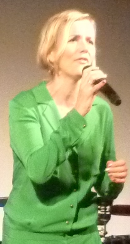 Benedikte Kruse with Pitsj at Ingensteds September 10, 2016.